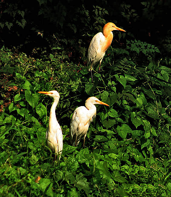 Eastern Cattle Egret Bubulcus coromandus in Kolkata, West Bengal, India.